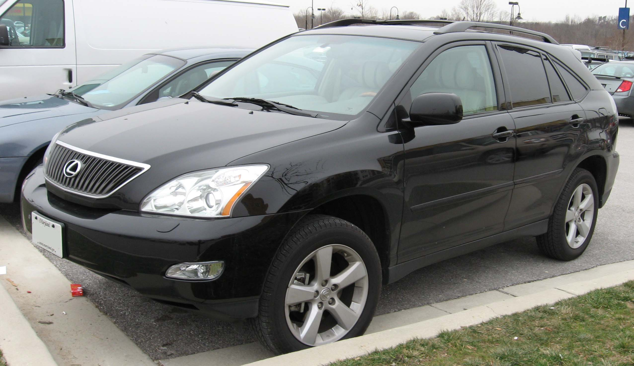 2007 Lexus RX350 photographed in USA.